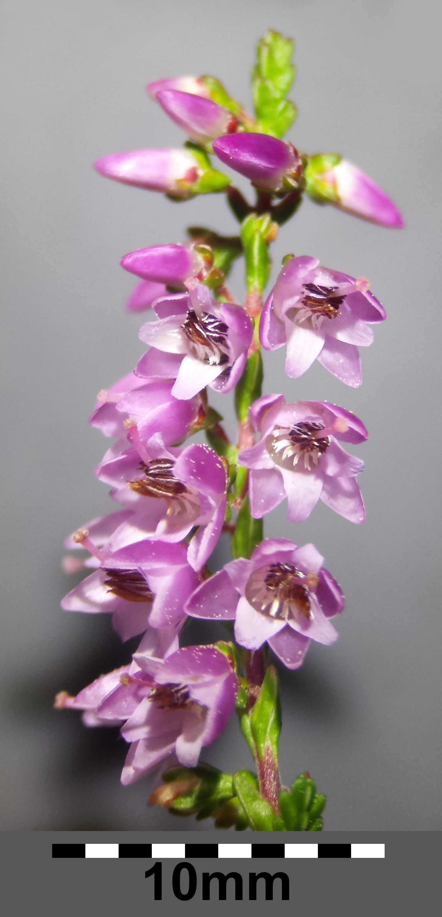 Inflorescence Taxonym: Calluna vulgaris ss Fischer et al. EfÖLS 2008 ISBN 978-3-85474-187-9 Location: near Altmelon, district Zwettl, Lower Austria - ca. 900 m a.s.l. Habitat: slope